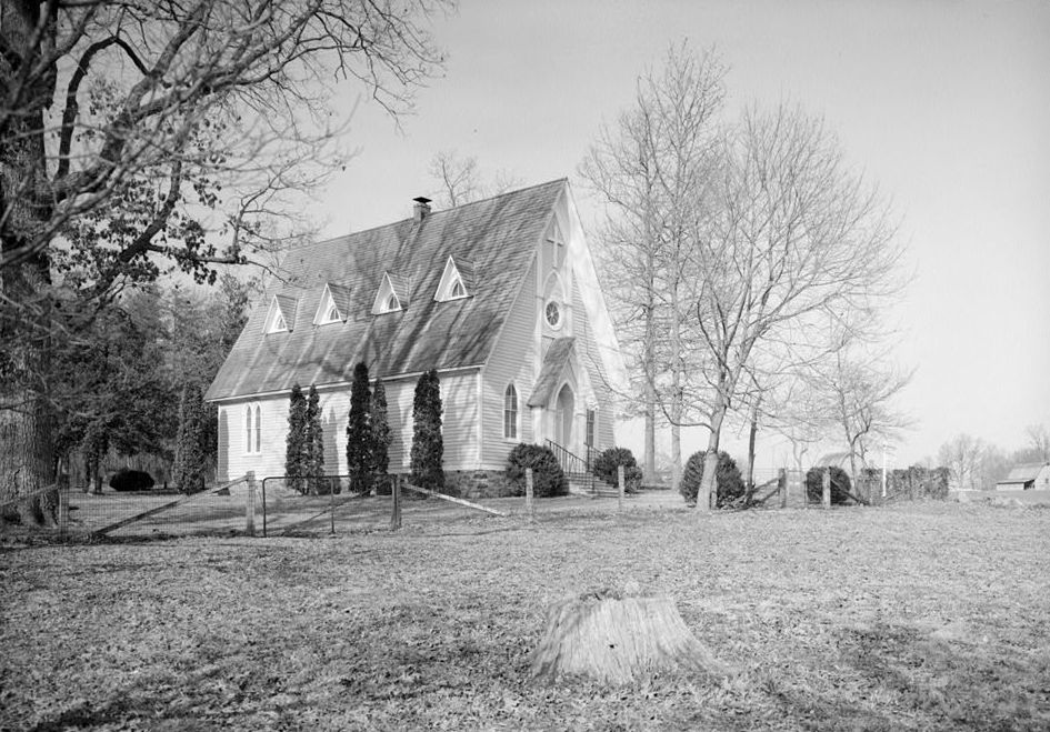 View of the west side and south front of St. John's Chapel, Intersection of State Routes 617 & 640, vicinity of Boswells Tavern, Louisa County, Virginia. Historic American Buildings Survey, Library of Congress, Washington, D. C.